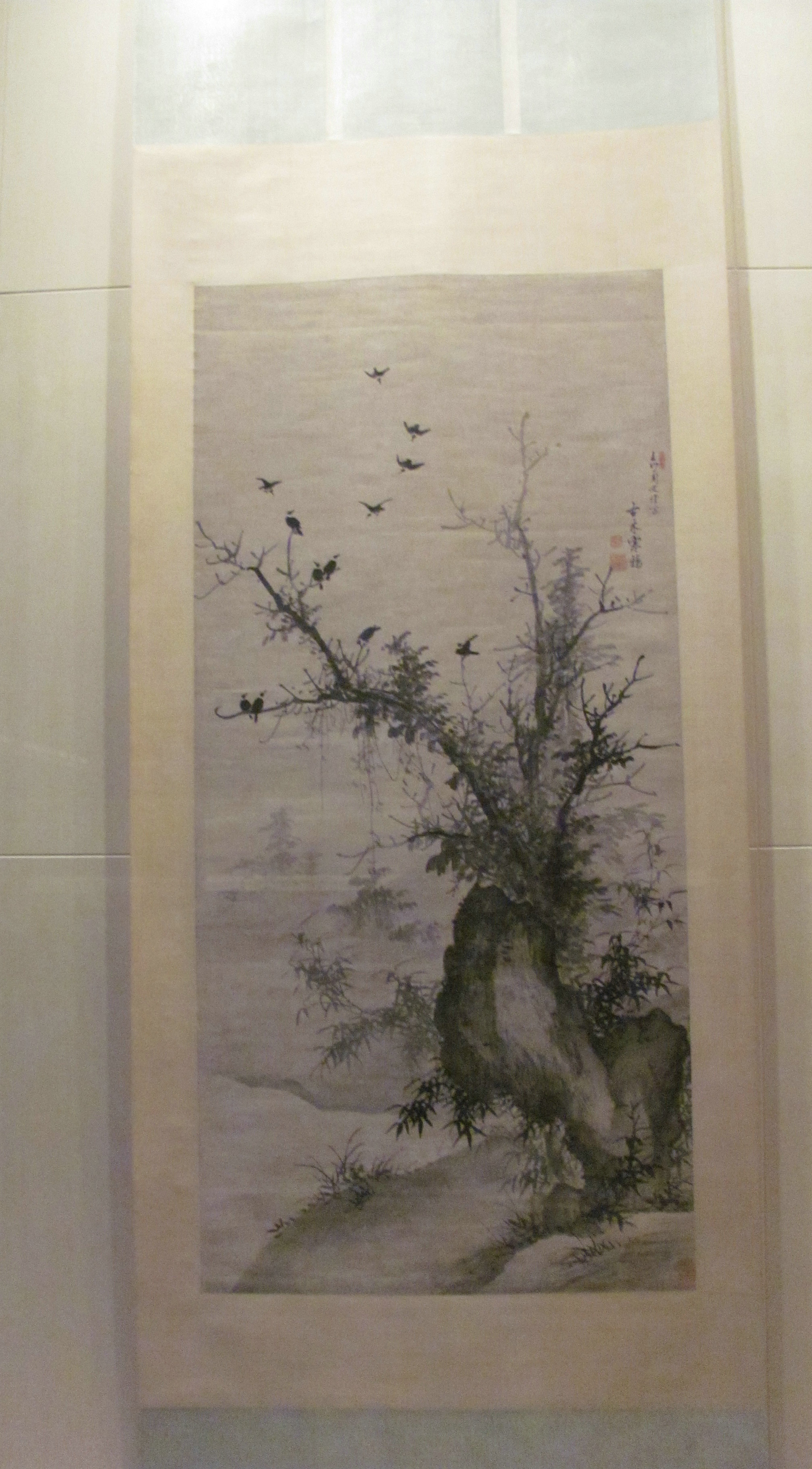 The ancient Chinese Ming Dynasty painter Zhou Wenjing Jackdaw map. (Google Translator).